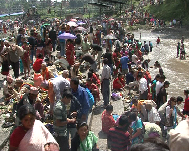 People gathering on the bank of Bagmati River.